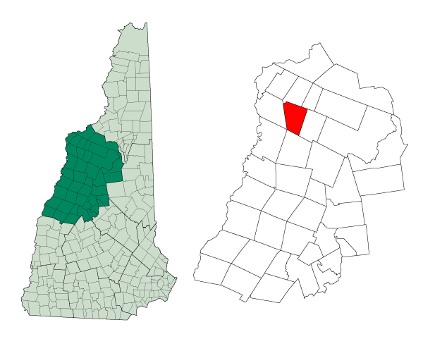 Map of a municipality in Belknap County, New Hampshire